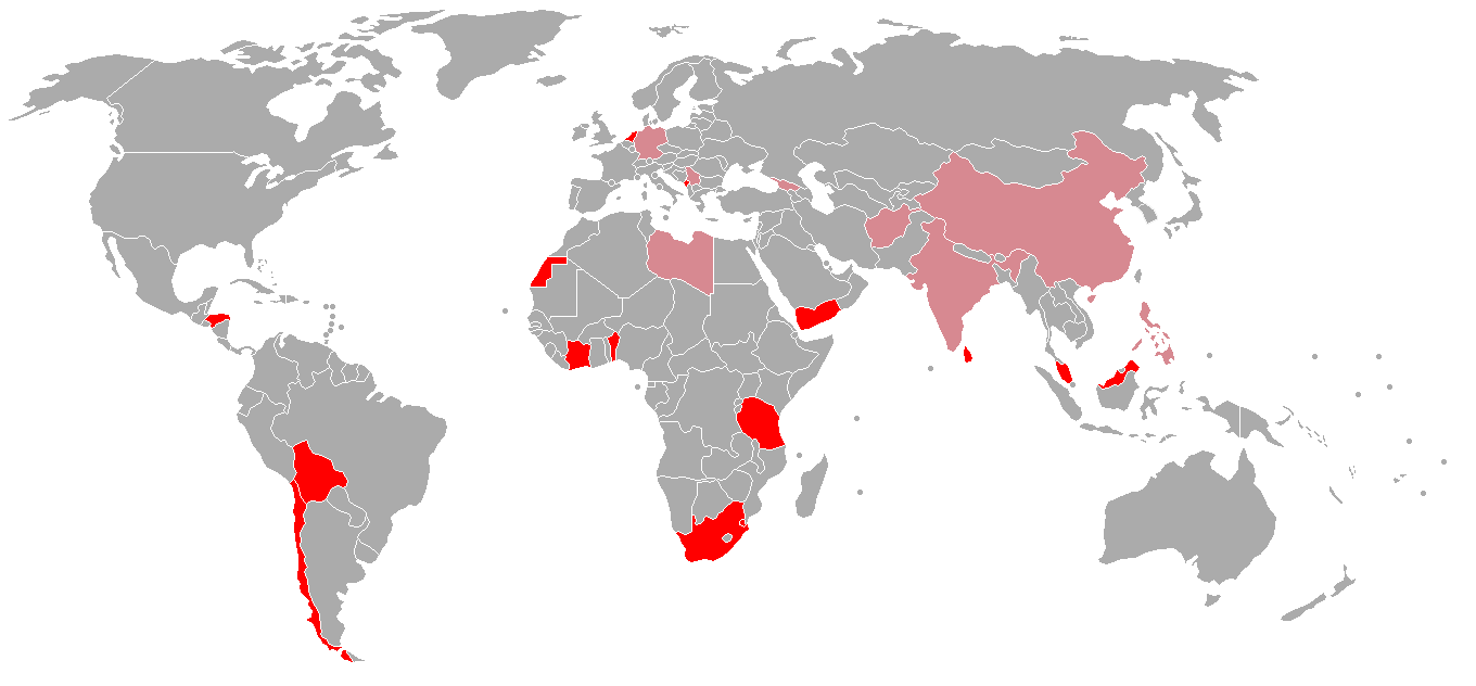 This map includes both present and historical countries with multiple capital cities. Countries that currently have multiple capital cities Countries that have had multiple capital cities in the past